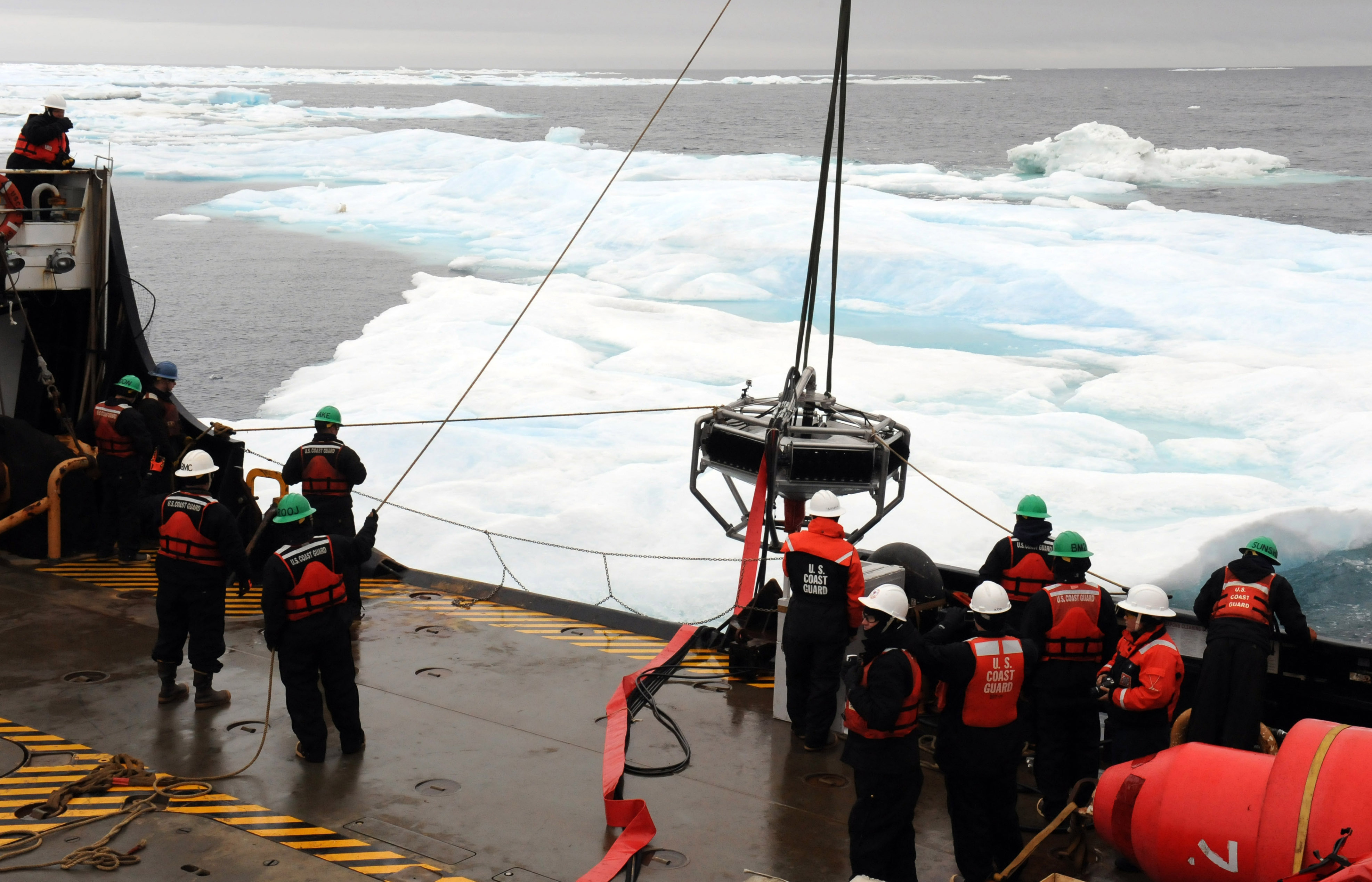 U.S. Coast Guardsmen aboard the buoy tender USCGC Sycamore (WLB 209) steady an oil skimmer as a crane lowers it into the water Aug. 2, 2012, in the Arctic Ocean near Barrow, Alaska. The operation was part of an oil recovery scenario held during exercise Arctic Edge 2012, a U.S. Northern Command, U.S. Coast Guard, state, local and tribal exercise designed to test the Spilled Oil Recovery System in the waters surrounding the Arctic regions of Alaska. (U.S. Coast Guard photo by Petty Officer 2nd Class Kelly Parker/Released)